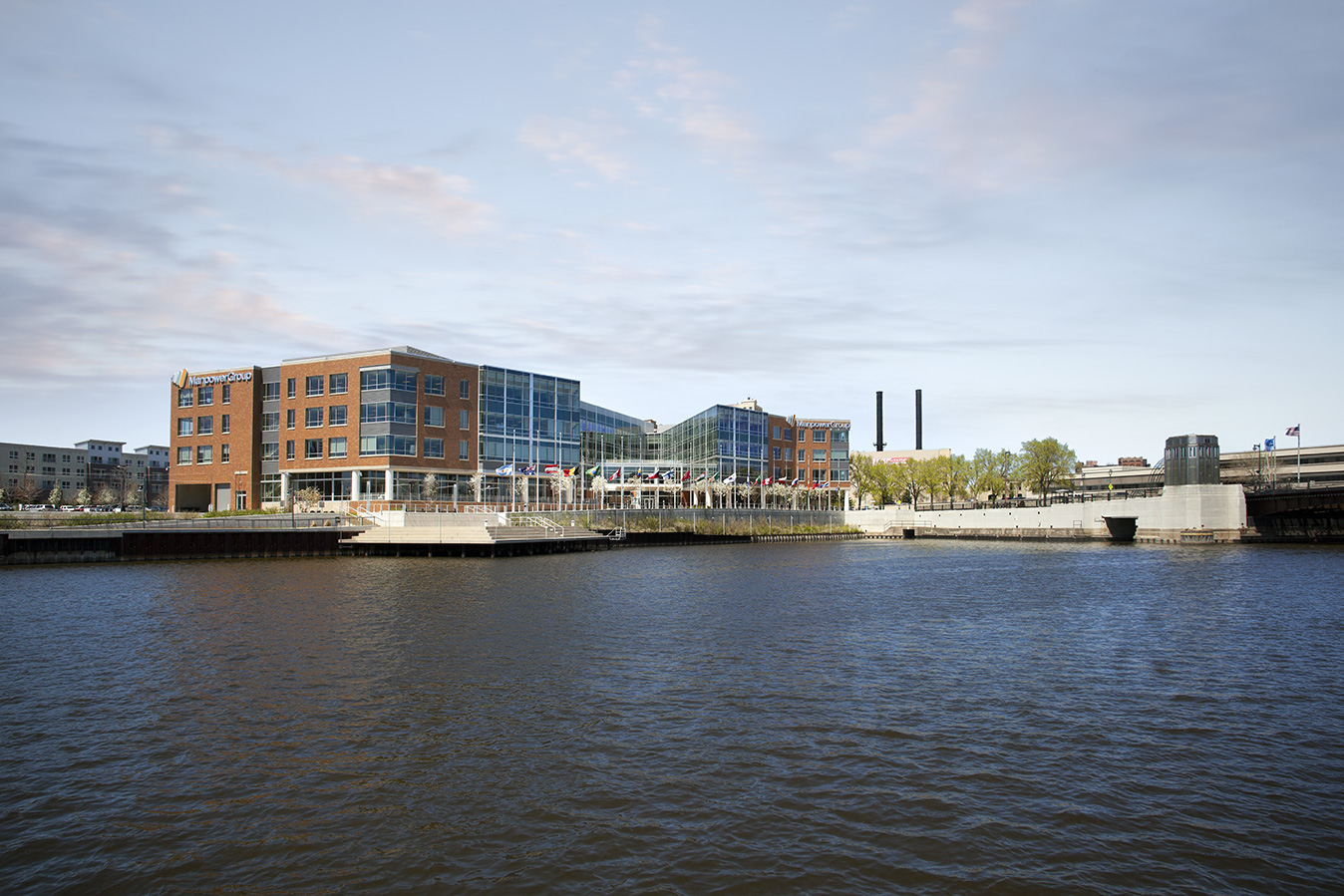 Photo of the exterior of the ManpowerGroup World Headquarters building in Milwaukee, Wisconsin.